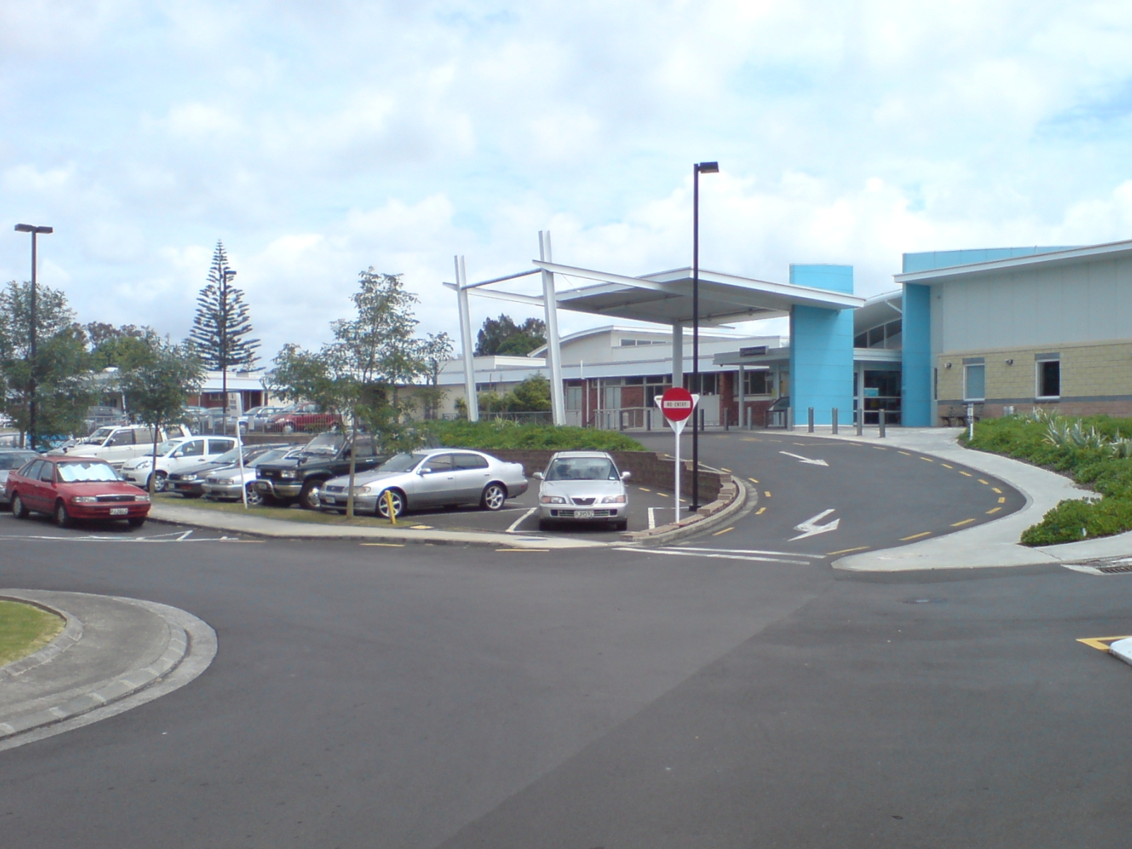 The entry of Waitakere Hospital, former Waitakere City, New Zealand. Looking northwest.